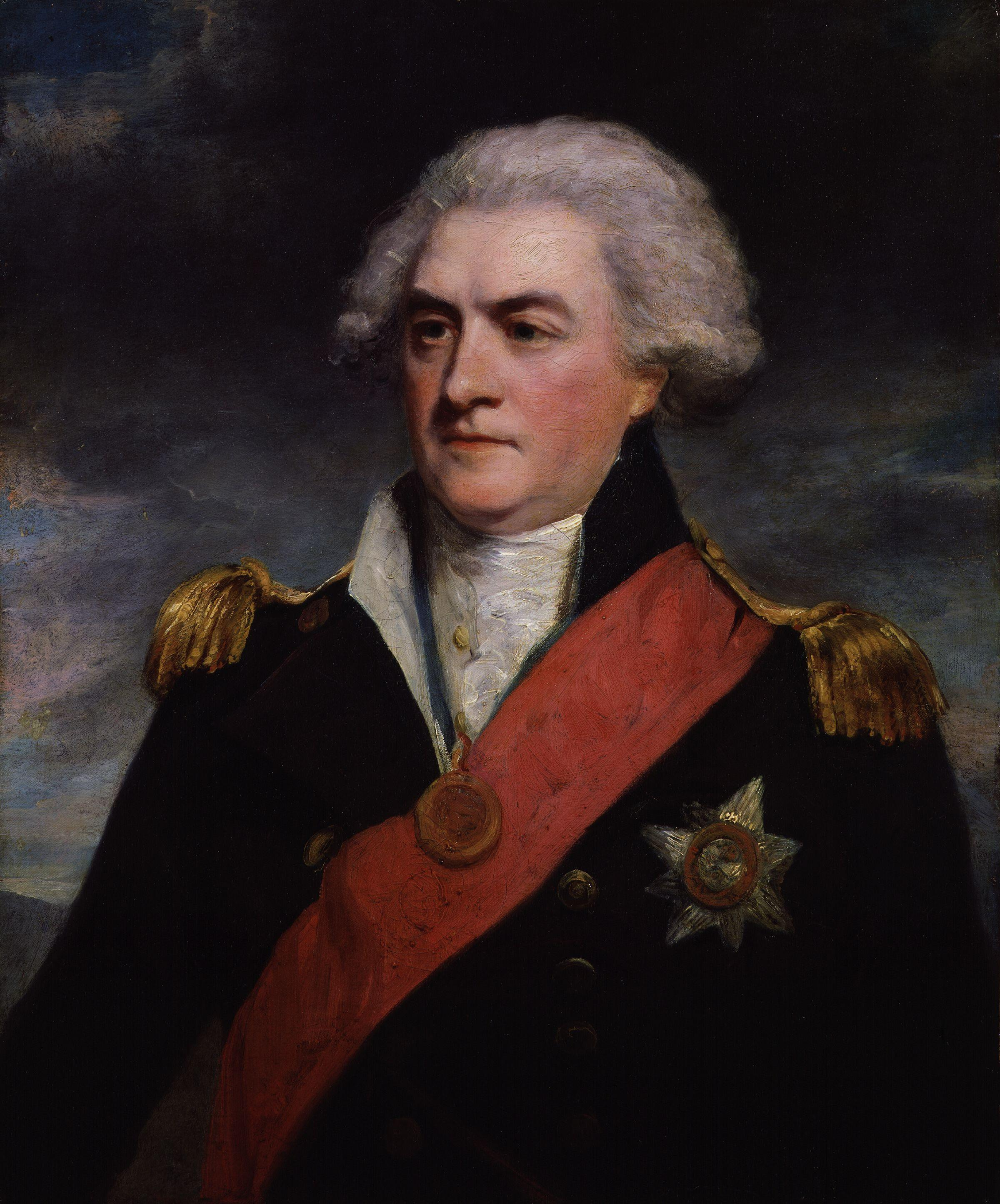 Adam Duncan was a British admiral who defeated the Dutch fleet off Camperdown. This portrait shows him wearing the star and sash of the Russian Imperial Order of St. Alexander Nevsky, awarded to him by Tsar Paul I (1797). The gold medal is possibly that granted to him as an augmentation of honour to his paternal coat of arms: Pendant by a ribbon argent and azure from a naval crown or a gold medal thereon two figures the emblems of Victory and Britannia; Victory alighting on the prow of an antique vessel, crowning Britannia with a wreath of laurel; and below the word "Camperdown".